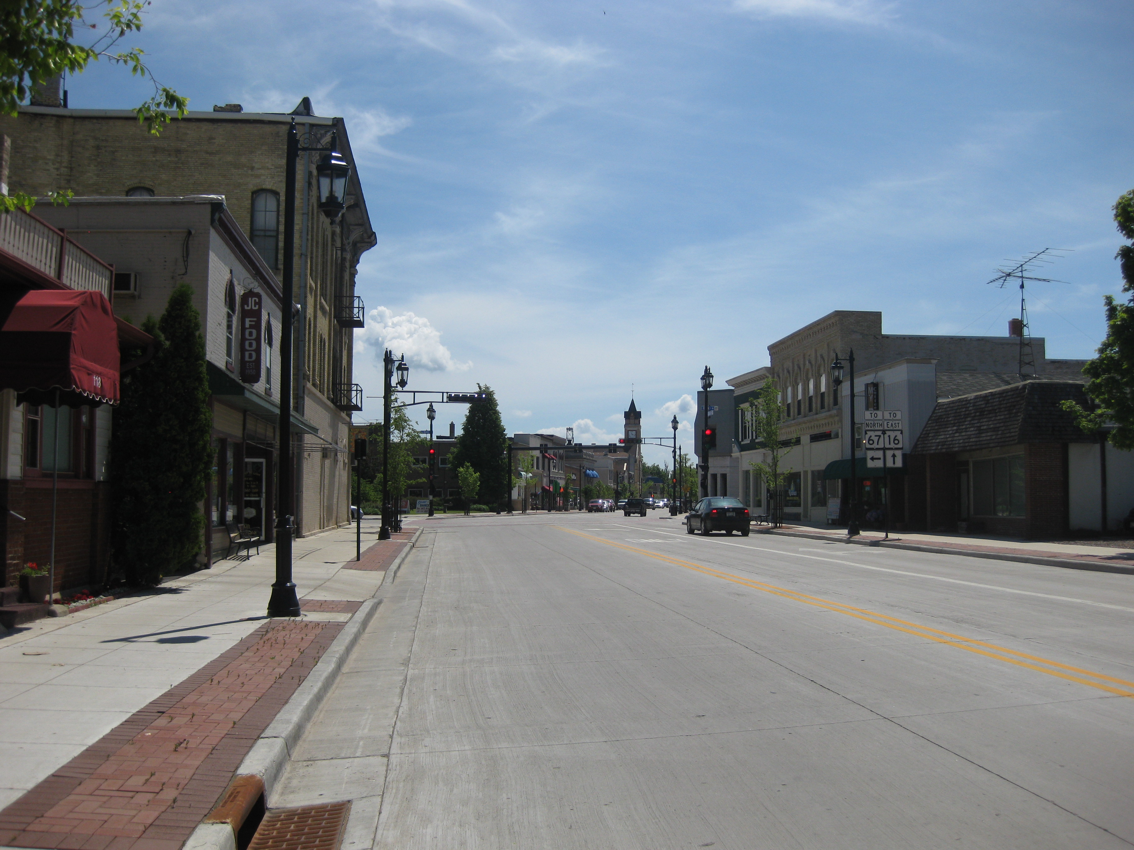 Picture taken by me